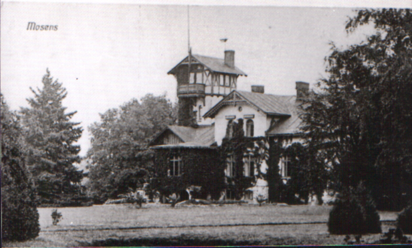 Manor house of Mazanki (before 1945 Mosens, district of Mohrungen, East Prussia, Germany